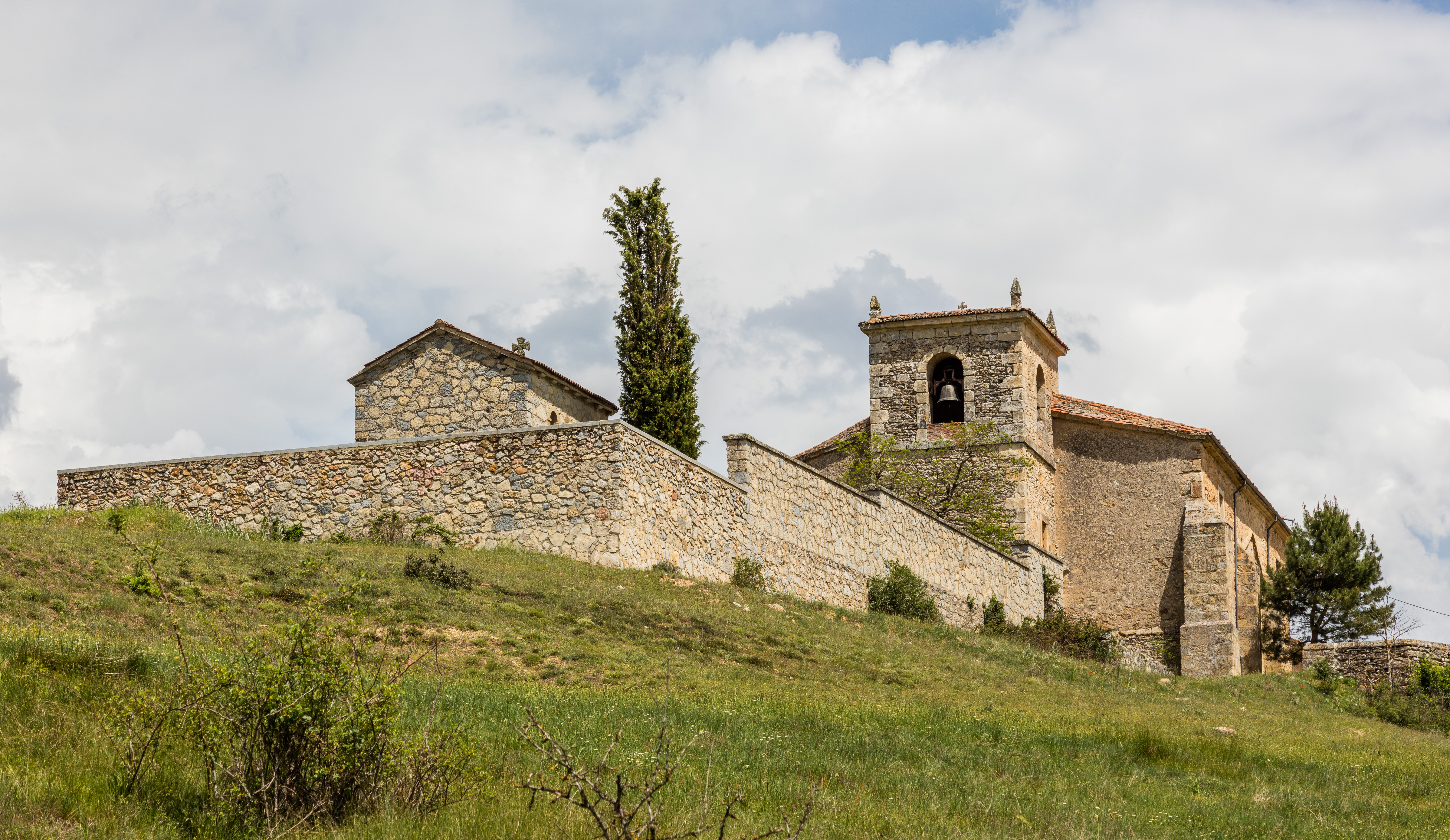 Church of the Natitivy, Vadillo, Soria, Spain